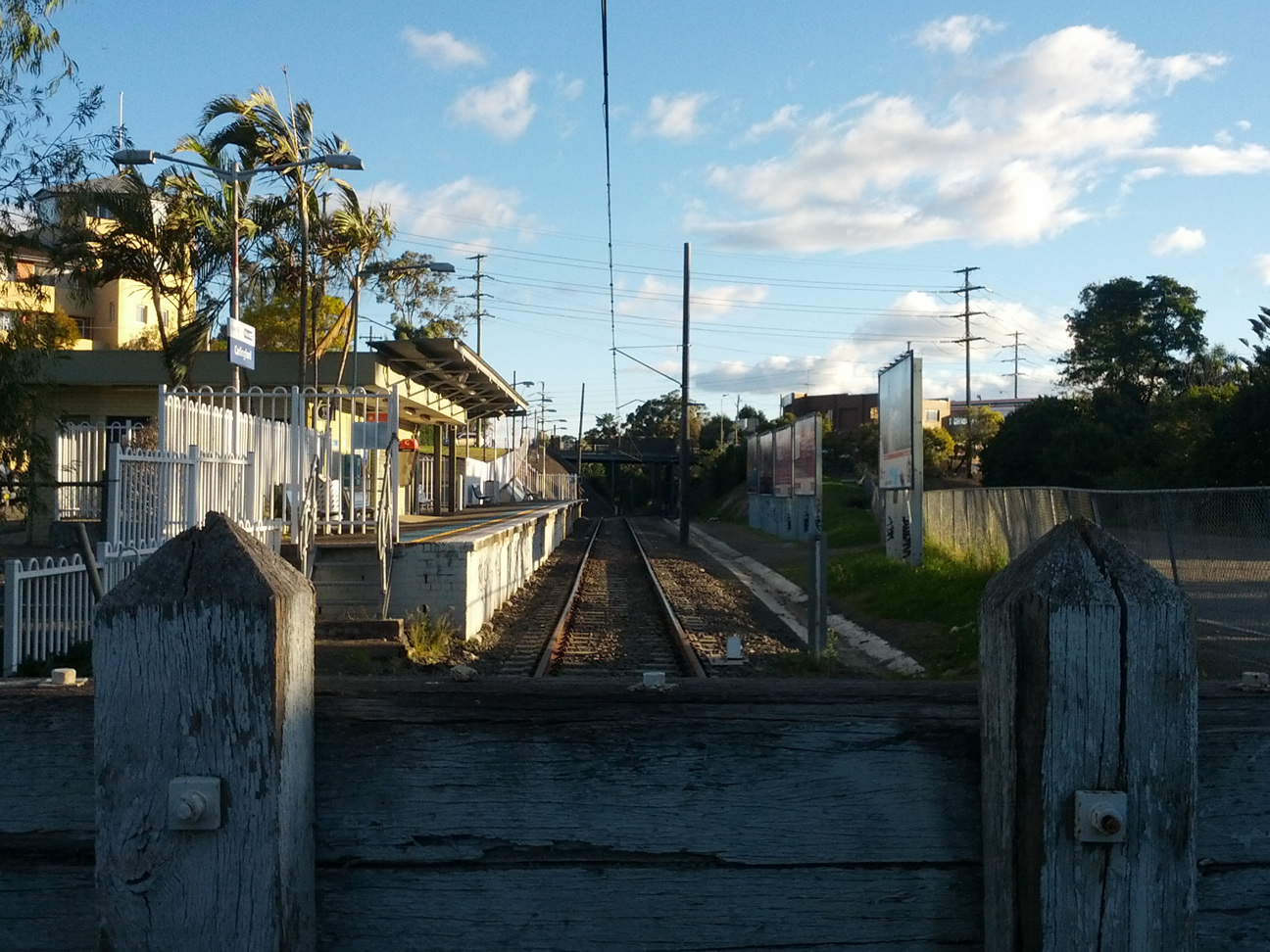 Carlingford - End of Line